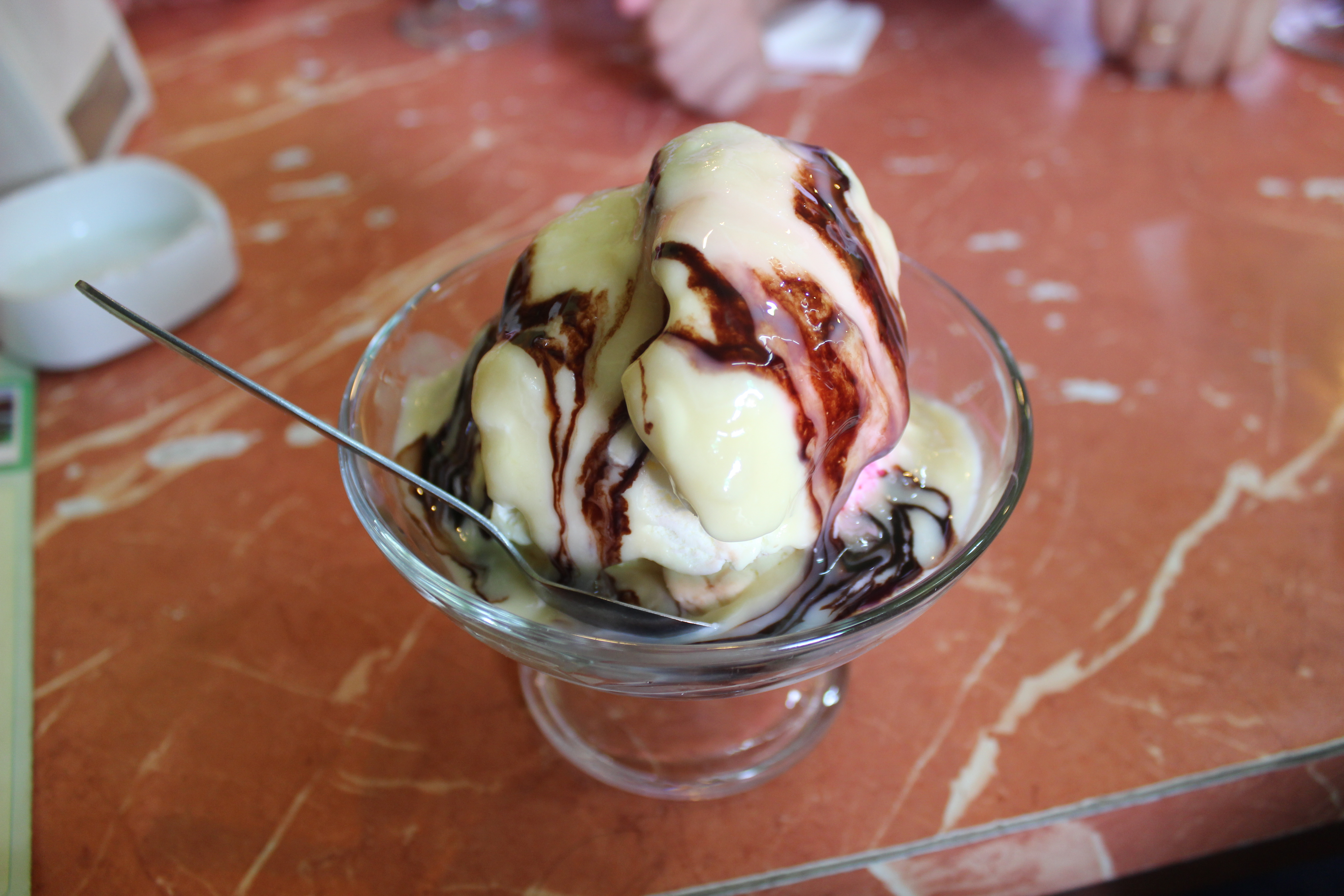 Padang-styled durian ice cream from Pulau Karam, known as the Chinatown of the city.